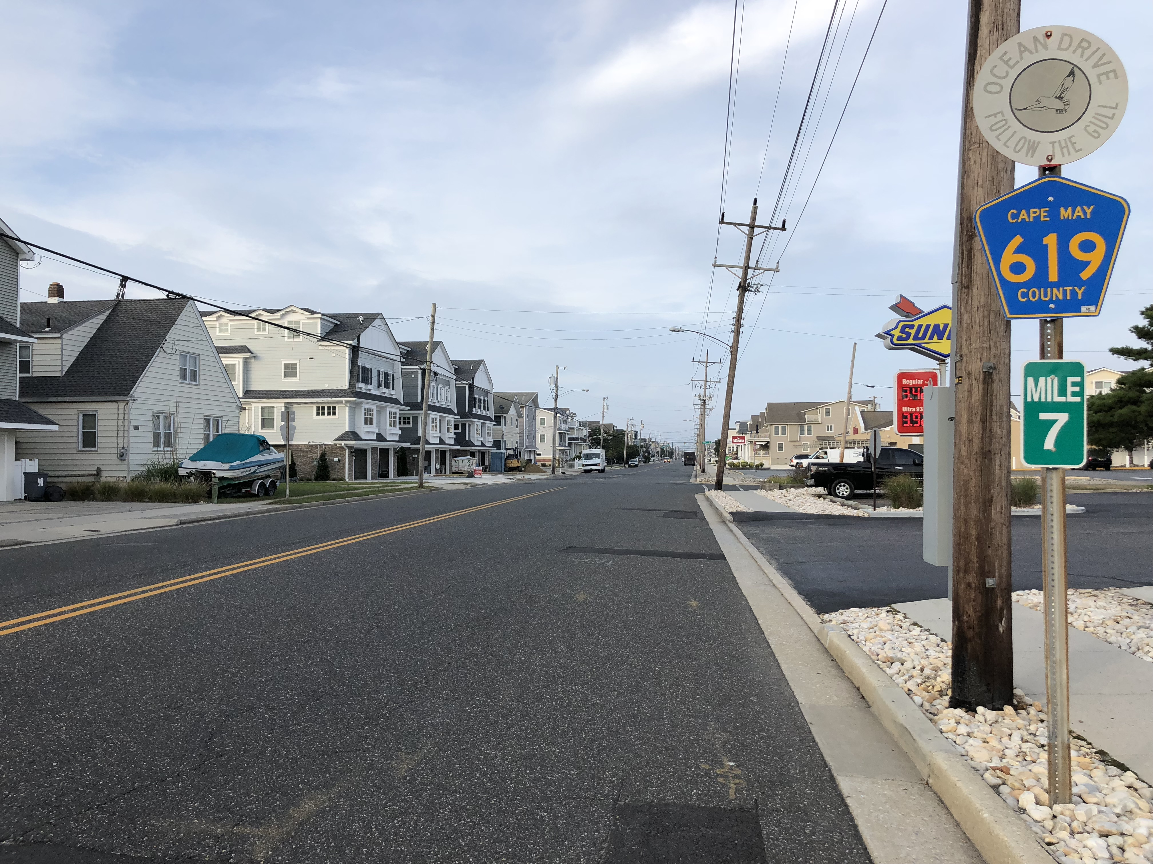 View north along Cape May County Route 619 (Ocean Drive) at 29th Street in Avalon, Cape May County, New Jersey